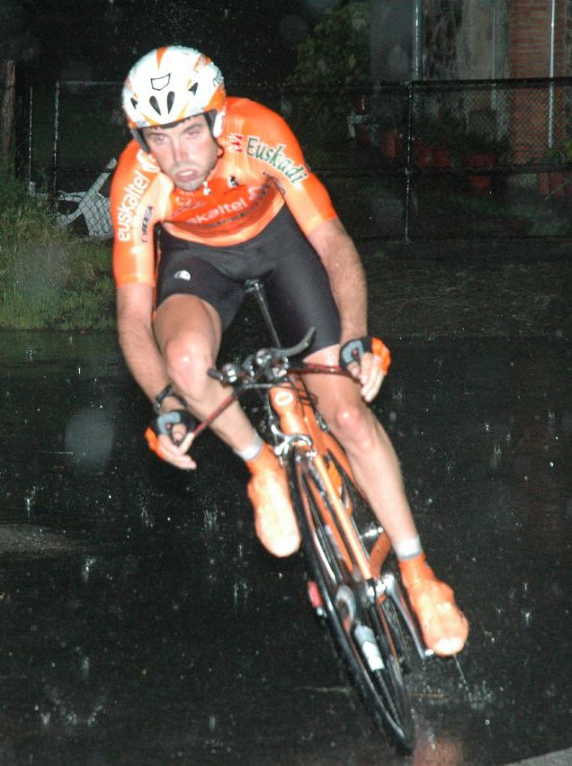 Samuel Sanchez